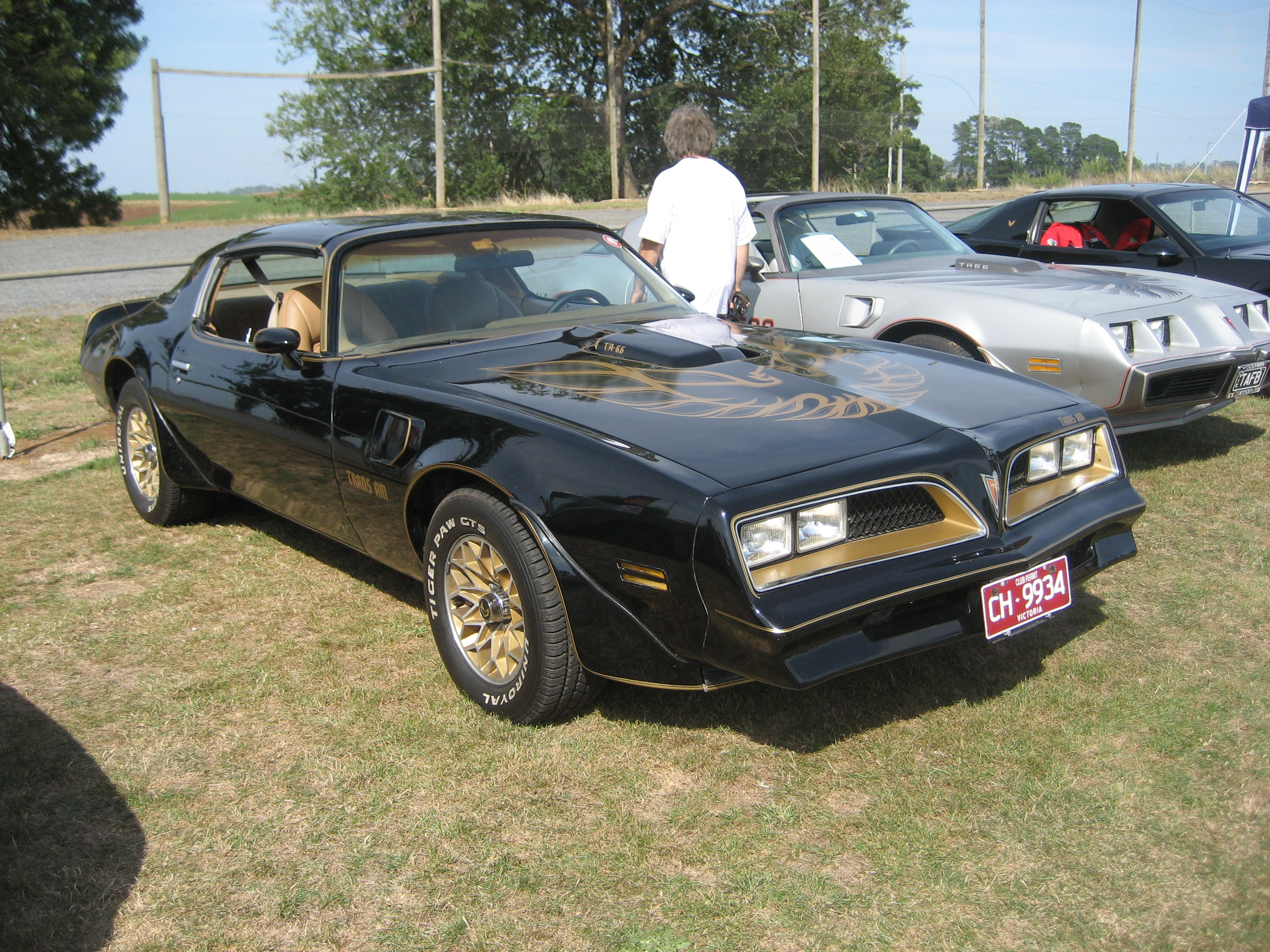 50th anniversary for Pontiac; the Transam Special Edition; Black with Gold accents, made famous in the movie; Smokey & the Bandit.